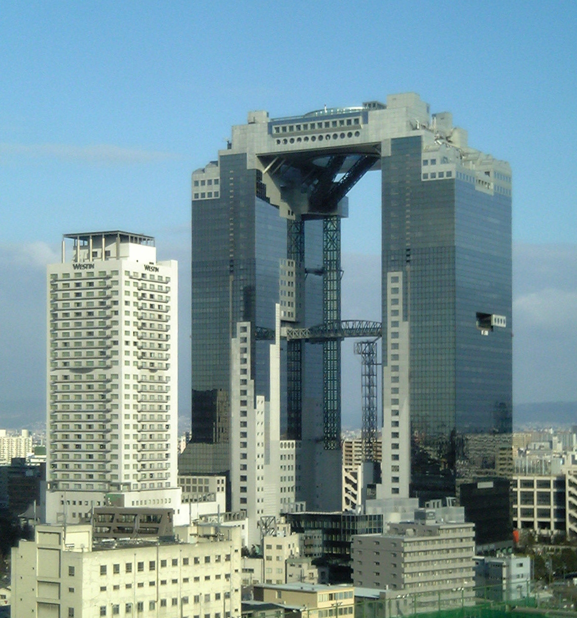 Photograph of Osaka Umeda sky-building. The Original one was taken by Suisui on 2005/02/05 with V602SH. And the image was rotated as the building to be vertical by J o.